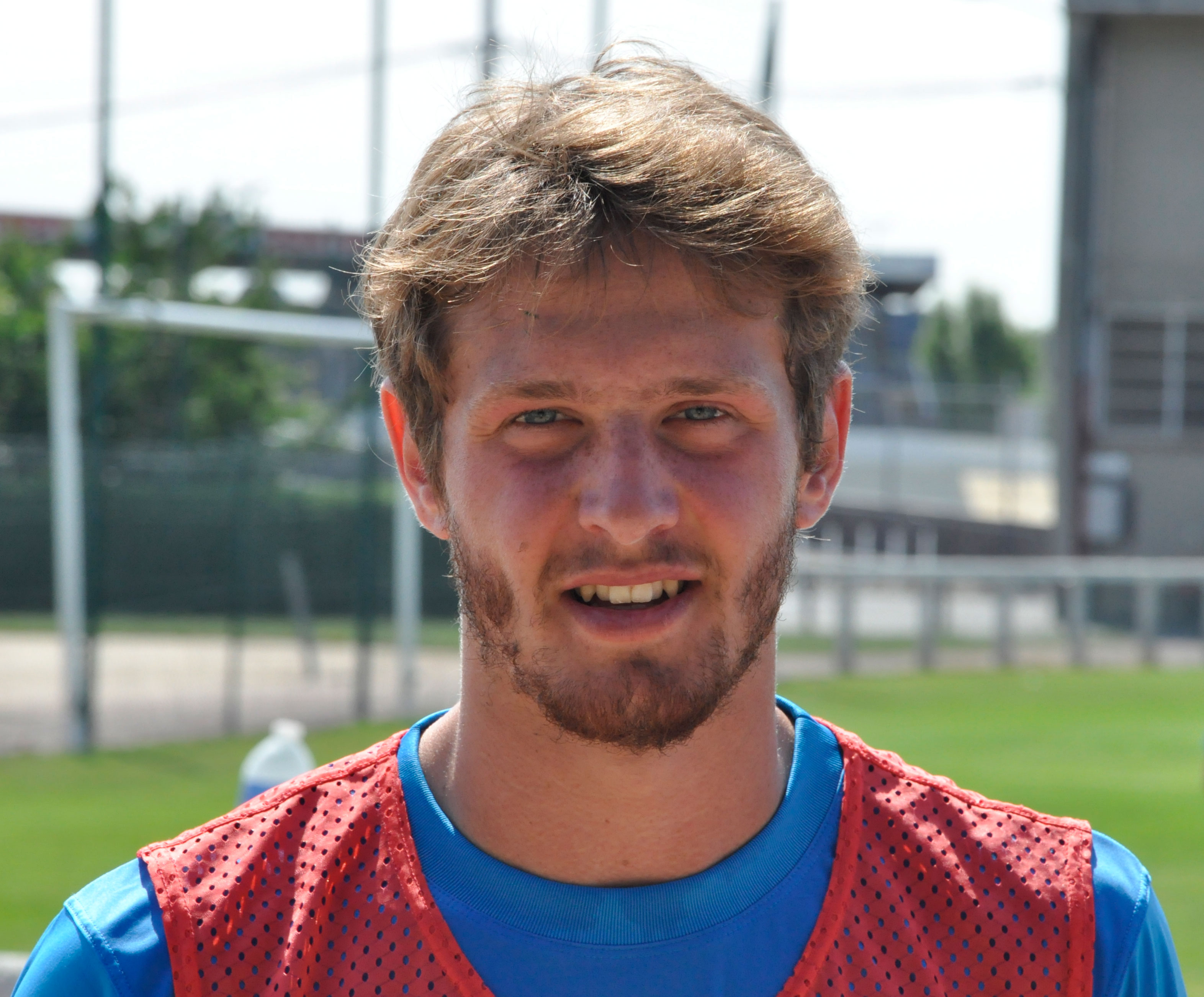 Damien Marcq french player